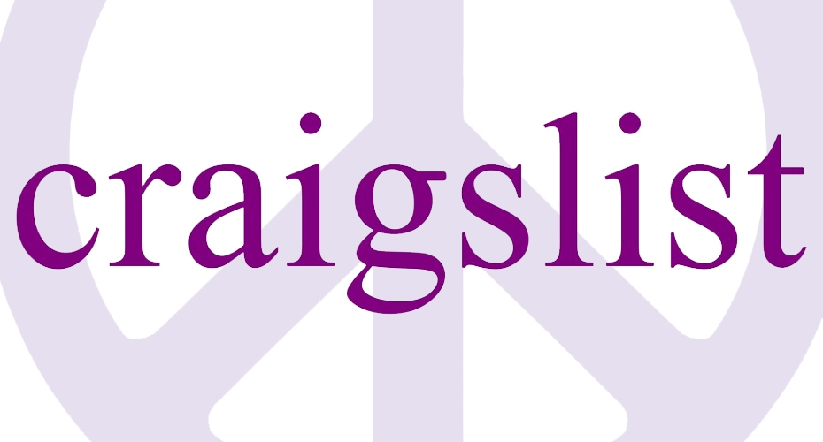 Craigslist